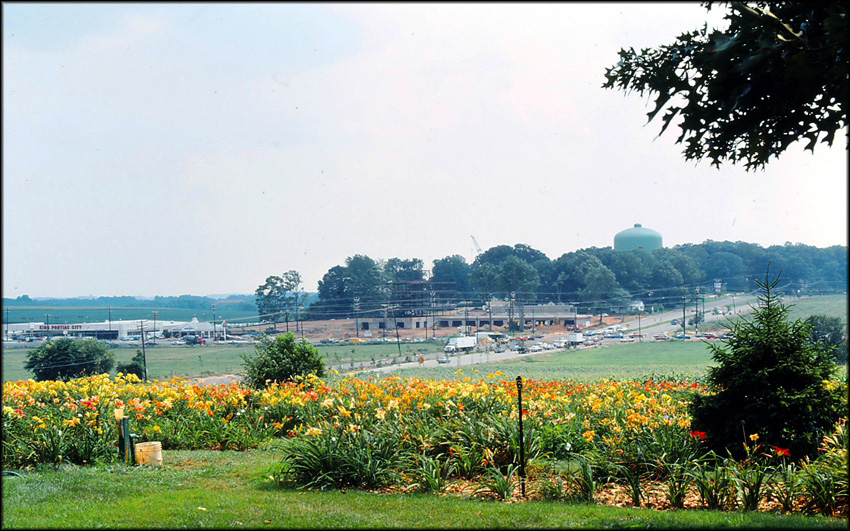 Construction of the Shady Grove Plaza Shopping Center, as seen from part of Daylily Farm in 1978